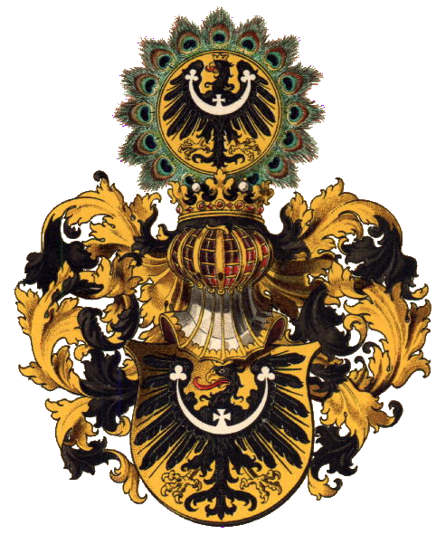 Historical coat of arms of Duchy of Silesia